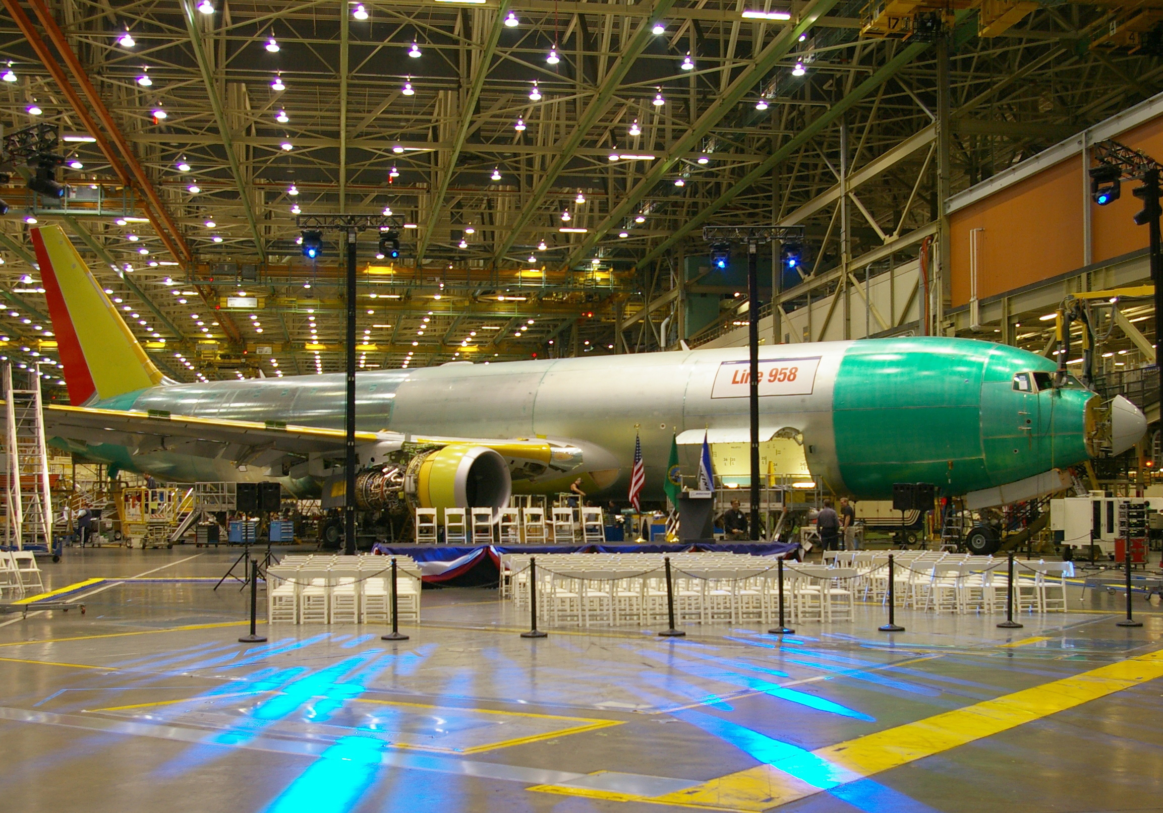 Boeing is proposing to build tanker versions of its 767 airliner for the Air Force. A 767 seen in production at Everett, Washington, August 6, 2007.